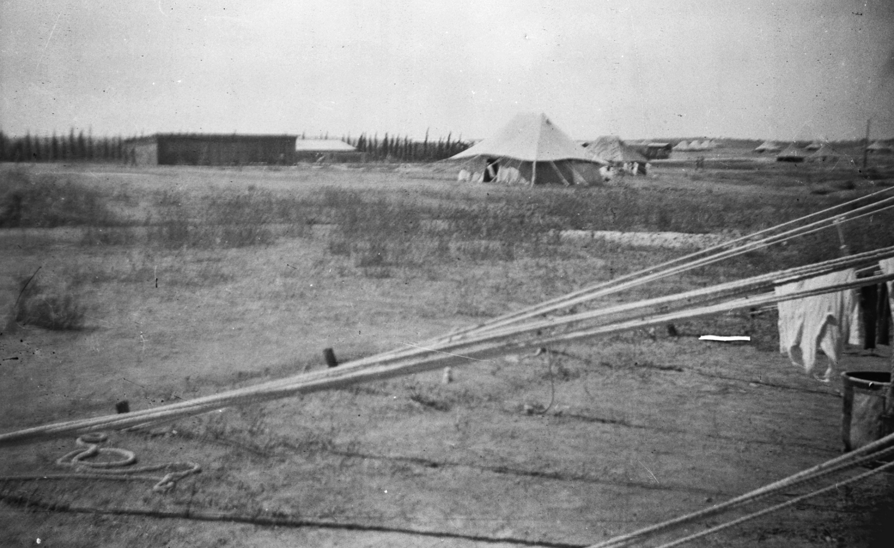 027 1940 - Pic by Dvr Tom Beazley of Julis camp, Palestine.